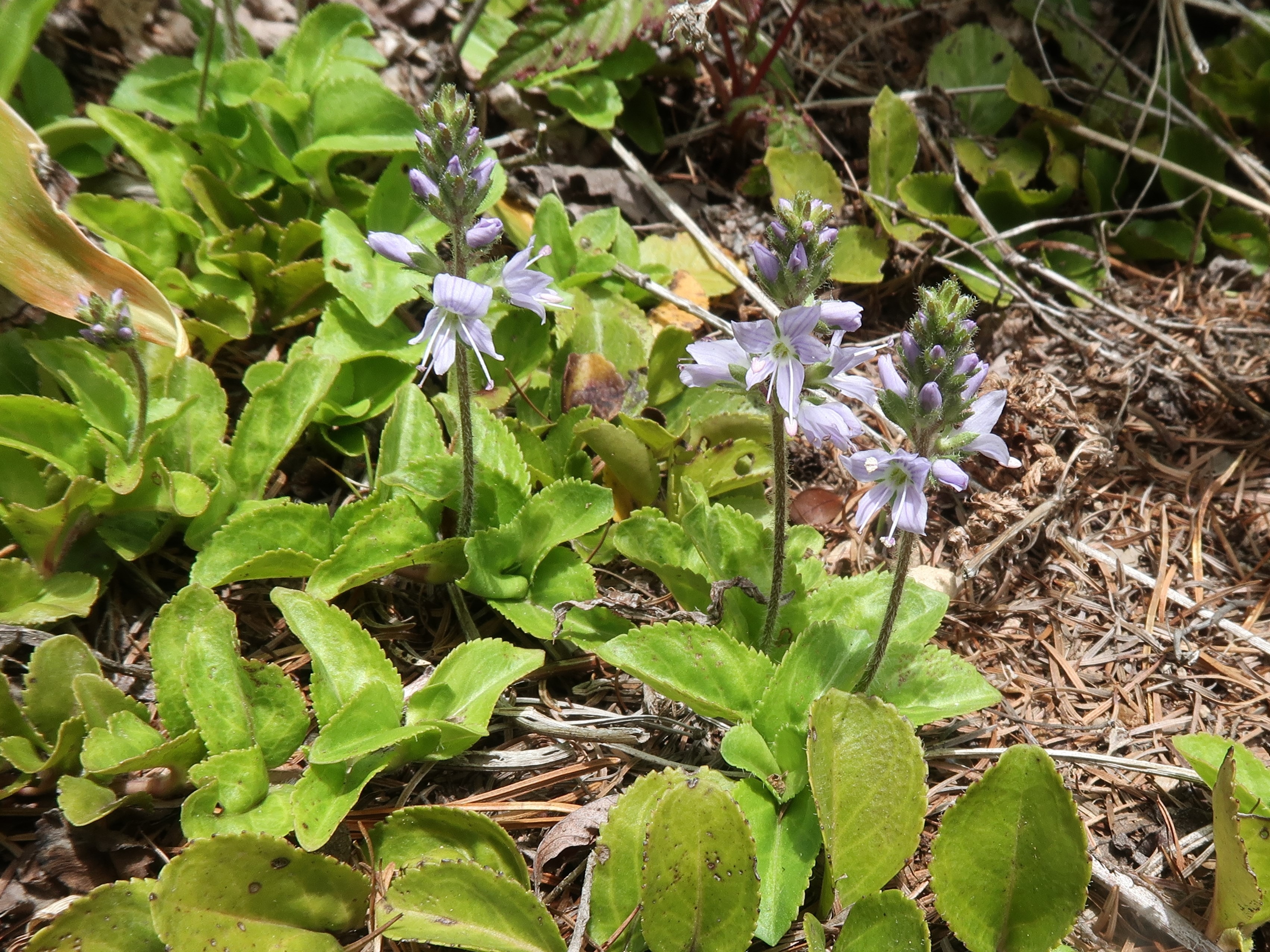 Veronica onoei, Toshin area, Nagano pref., Japan